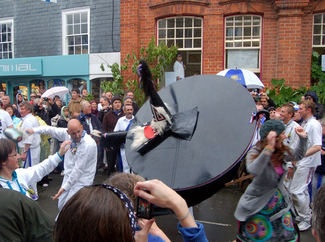 Padstow, Mayday 2009 (2) The town of Padstow in north Cornwall celebrates May Day each year with its famous 'Obby 'Oss Festival [1]. Two rival factions, the Old Oss (red livery) and the Blue Ribbon Oss (blue livery). In this view, the Blue Ribbon 'Oss (centre) has just emerged from the Padstow Institute.